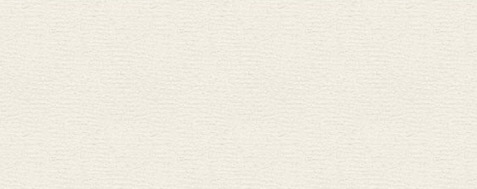 "Verjurat" paper type.